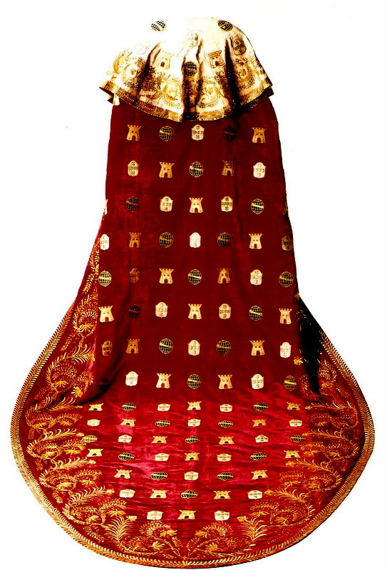 A Piece of the Portuguese Crown Jewels